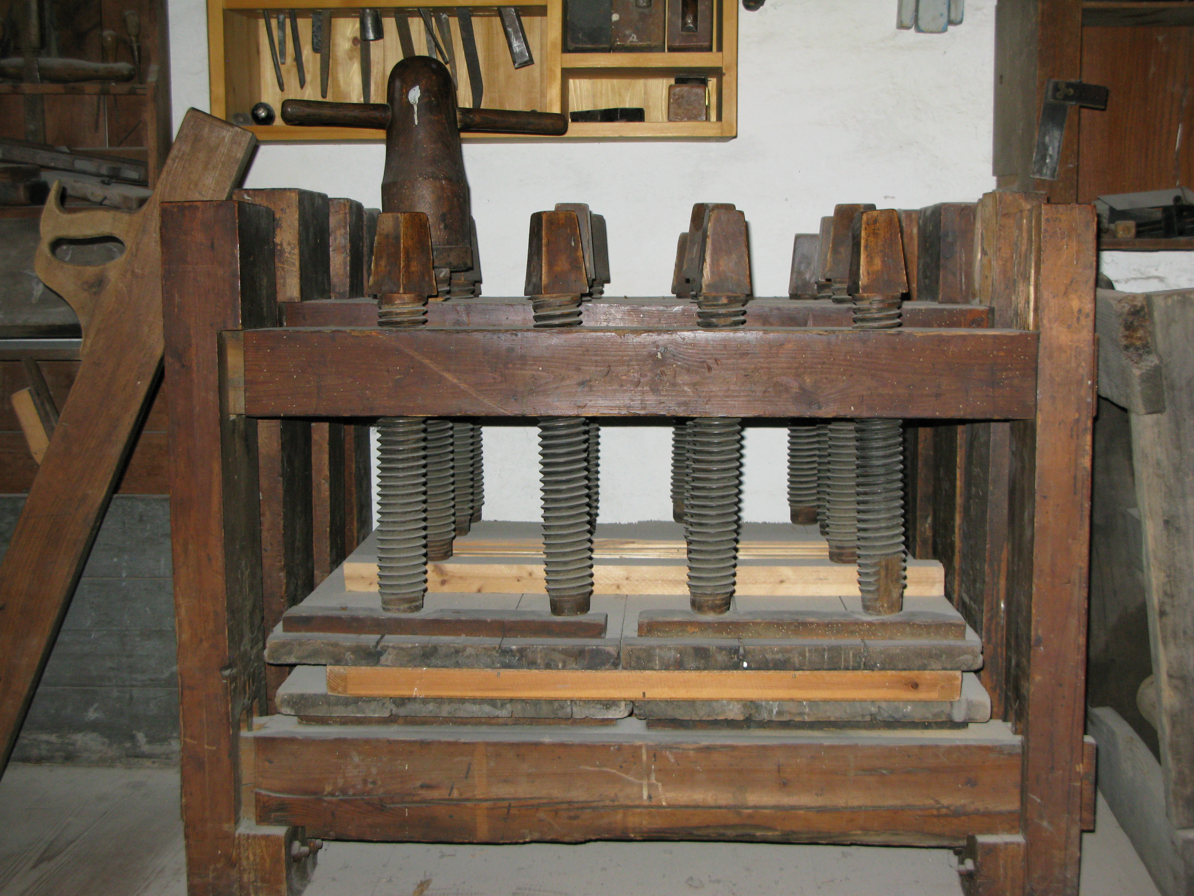 Veneer press.